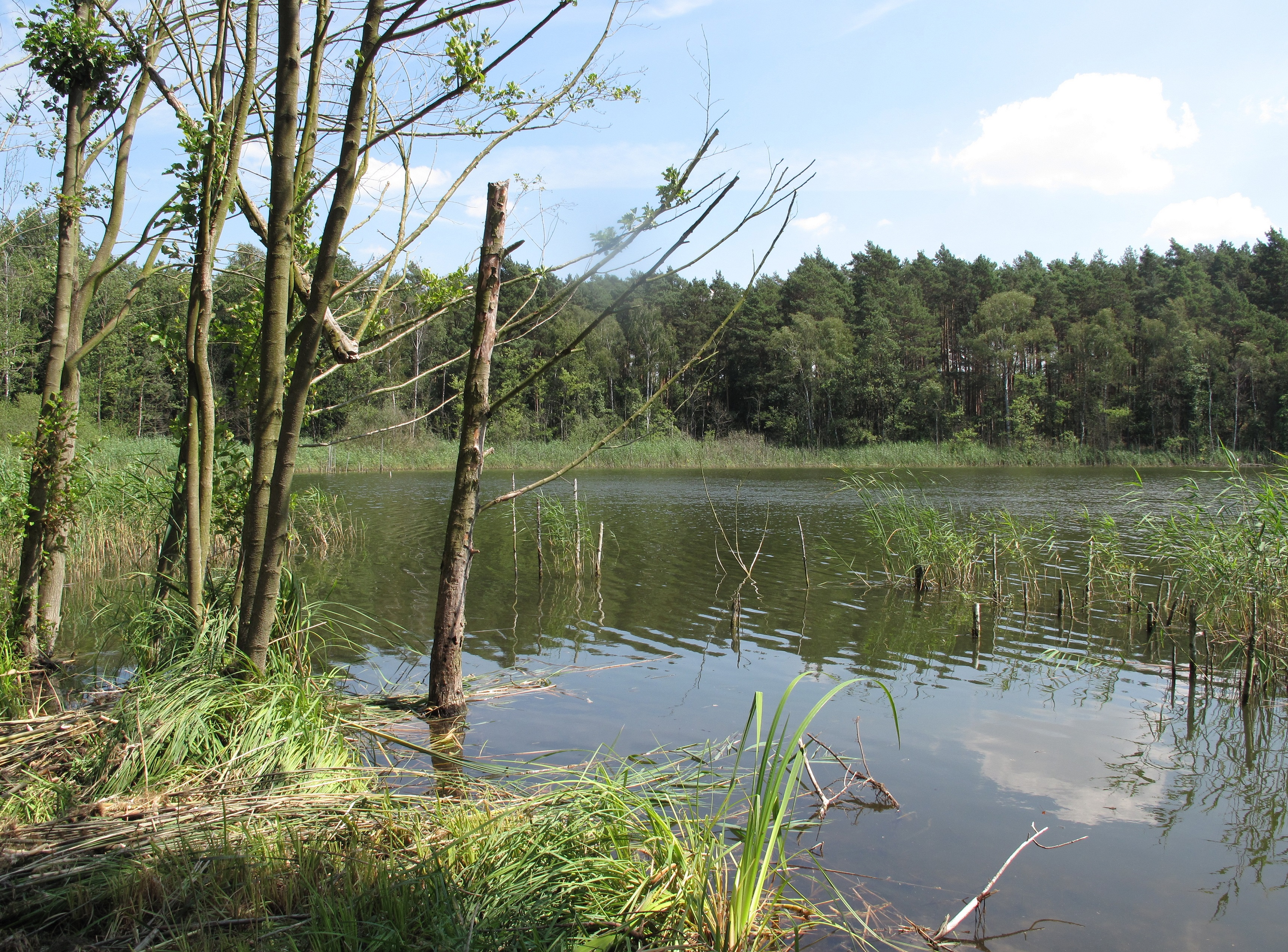 View from the northwestern shore of the Premsdorfer See to east. The Premsdorfer See is a lake in the village Görsdorf, a part (german: Ortsteil) of the municipality Tauche in the District Oder-Spree, Brandenburg, Germany. The lake covers 14 hectare and is situated in the Dahme-Heideseen Nature Park. The long-drawn groove lake is, seen from the north, the fourth water of a five-part chain of lakes, which is connected by the Blabbergraben. The Blabbergraben drains the lakes to the south into the river Spree.